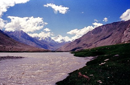 Moutains Kun and Nun in the distance. In Kargil district.